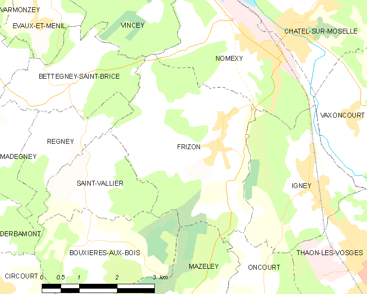 Map of French municipality Frizon